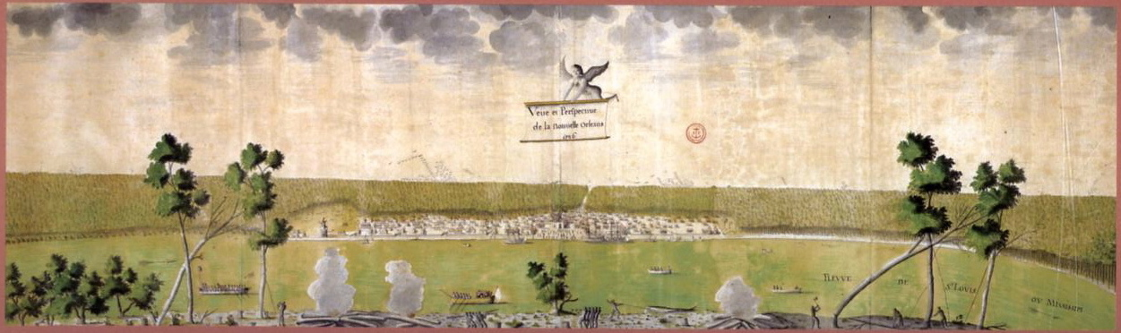 "Veüe et Perspective de la Nouvelle Orleans" (View & Perspective of New Orleans), 1726. Ink and watercolor by Jean-Pierre Lassus. View shows the young city of New Orleans from across the Mississippi River at Algiers Point. In the foreground, slaves labor on the West Bank (then a Company of the Indies plantation) downing trees. To right of center, a man spears an alligator. Small boats are on the Mississippi, with larger sailing ships across the River at the town. Trees are shown cleared only a short distance beyond the town limits. The road to Bayou St. John seen towards top center of view. This is said to be the only known contemporary view of the city from the first French Colonial era, before Louisiana was transfered to Spain in 1763.